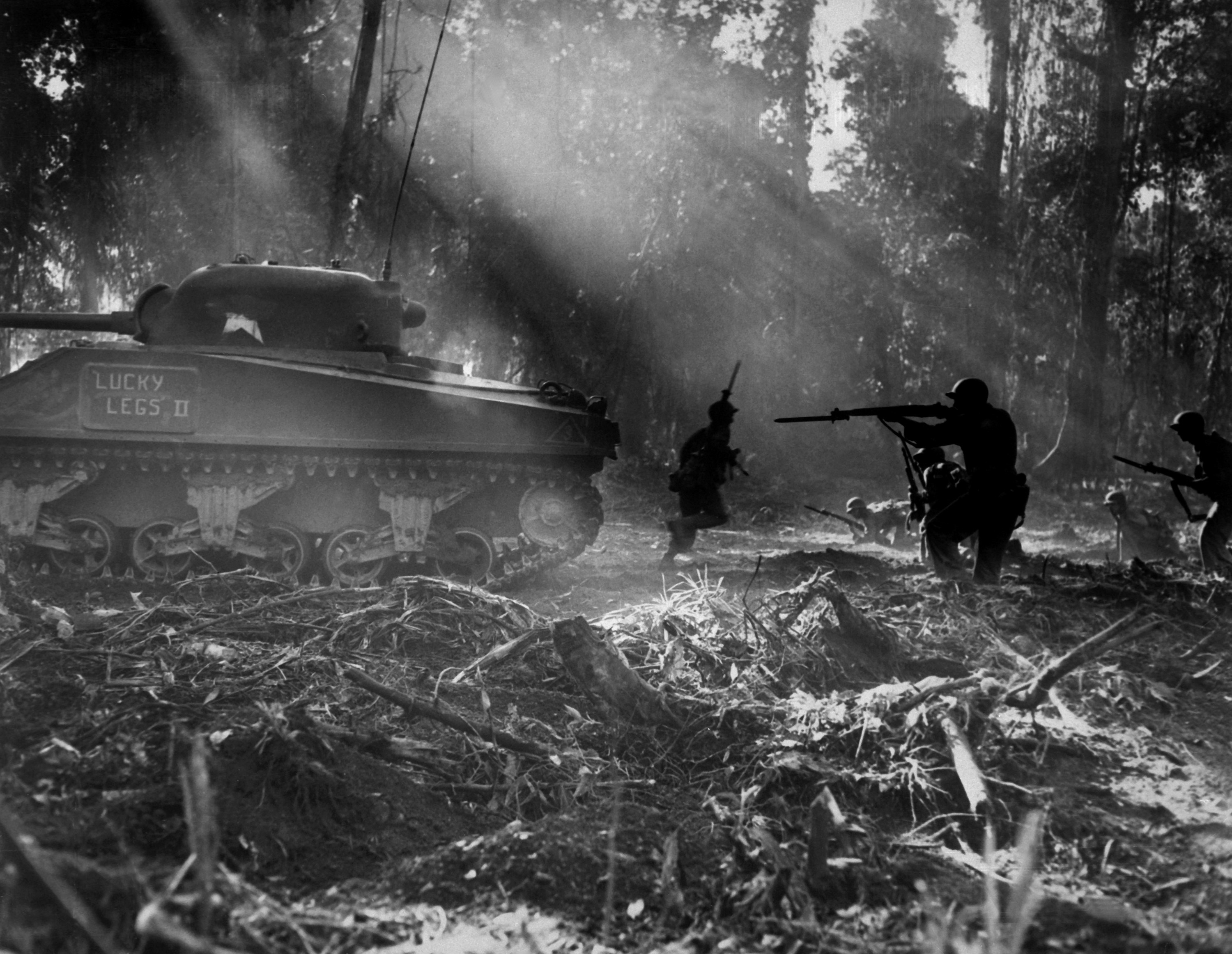 U.S. Army soldiers on Bougainville (one of the Solomon Islands) in World War II. Japanese forces tried infiltrating the U.S. lines at night; at dawn, the U.S. soldiers would clear them out. In this picture, infantrymen are advancing in the cover of an M4 Sherman tank.